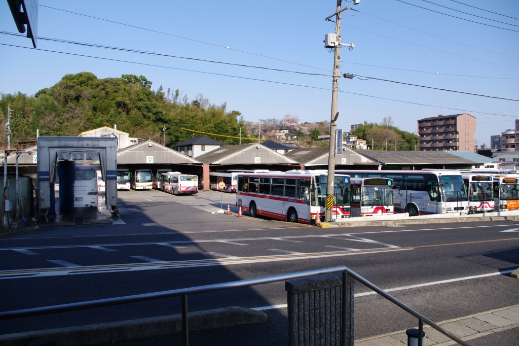 Meitetsu Bus Toyota Depot